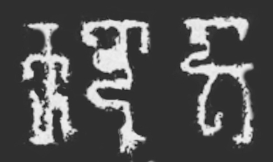 Kundunga